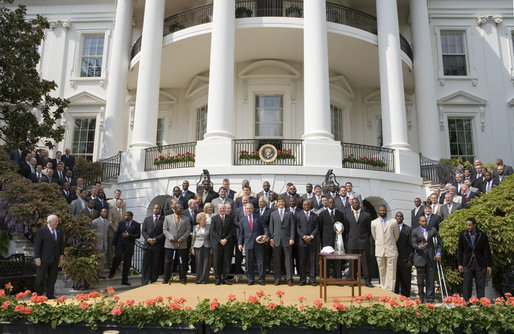 President George W. Bush and Vice President Dick Cheney pose for a photo with the Super Bowl XLII Champion New York Giants, Wednesday, April 30, 2008, on the South Lawn of the White House.